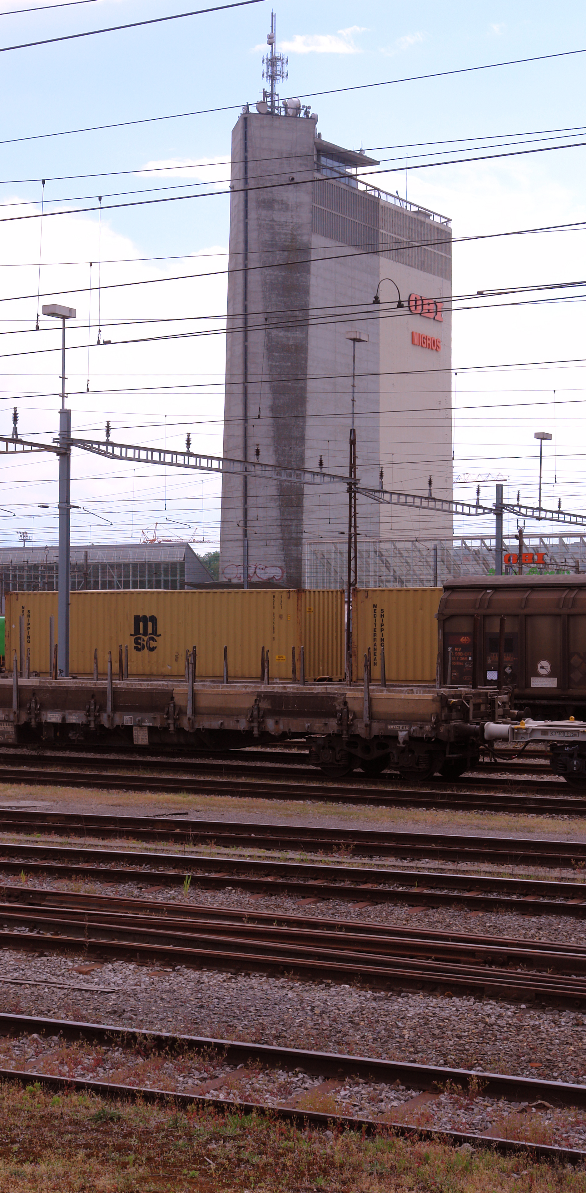 Storage Silo, Renens, 1957-59 in Switzerland, Architect: Jean Tschumi, exceedingly altered by modification